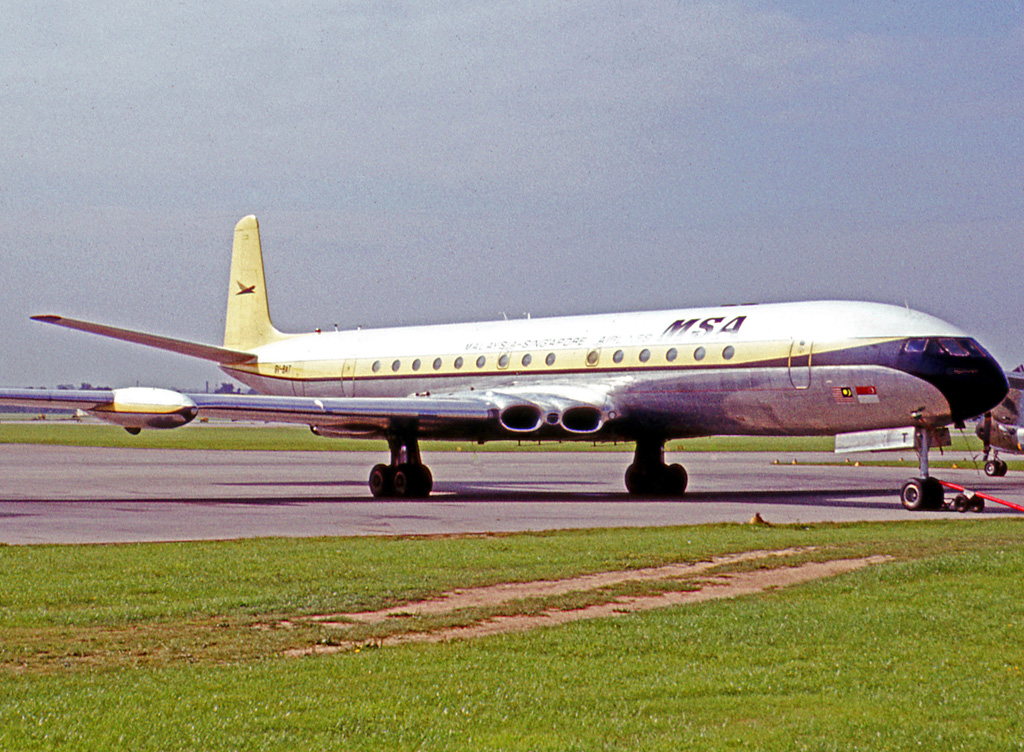 De Havilland Comet 4 9V-BAT of Malaysia-Singapore Airlines in 1969